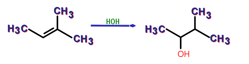 3-Methyl-2-butanol synthesis from 2-Methyl-2-butene